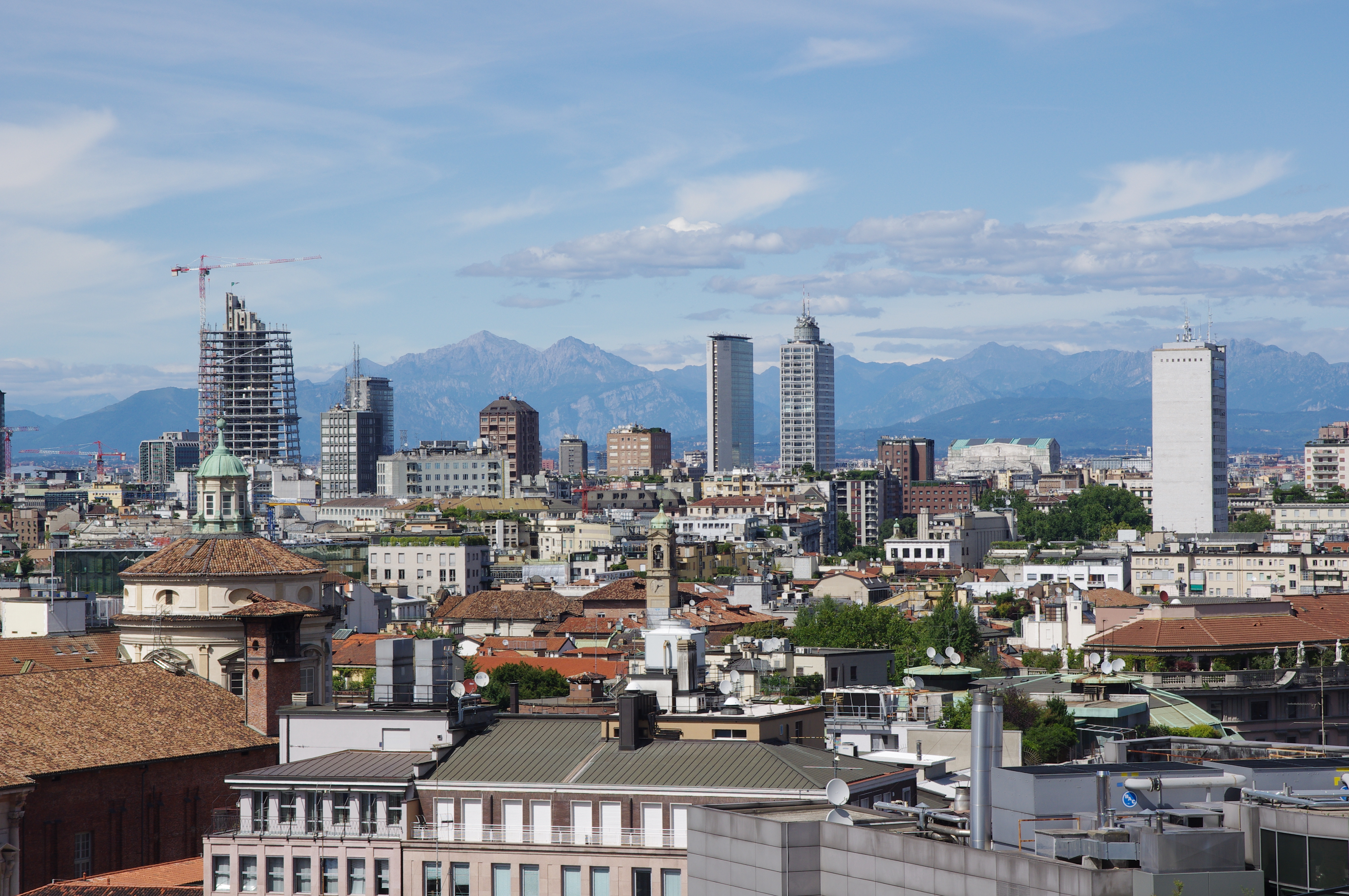 Milan, seen from the roof of the cathedral